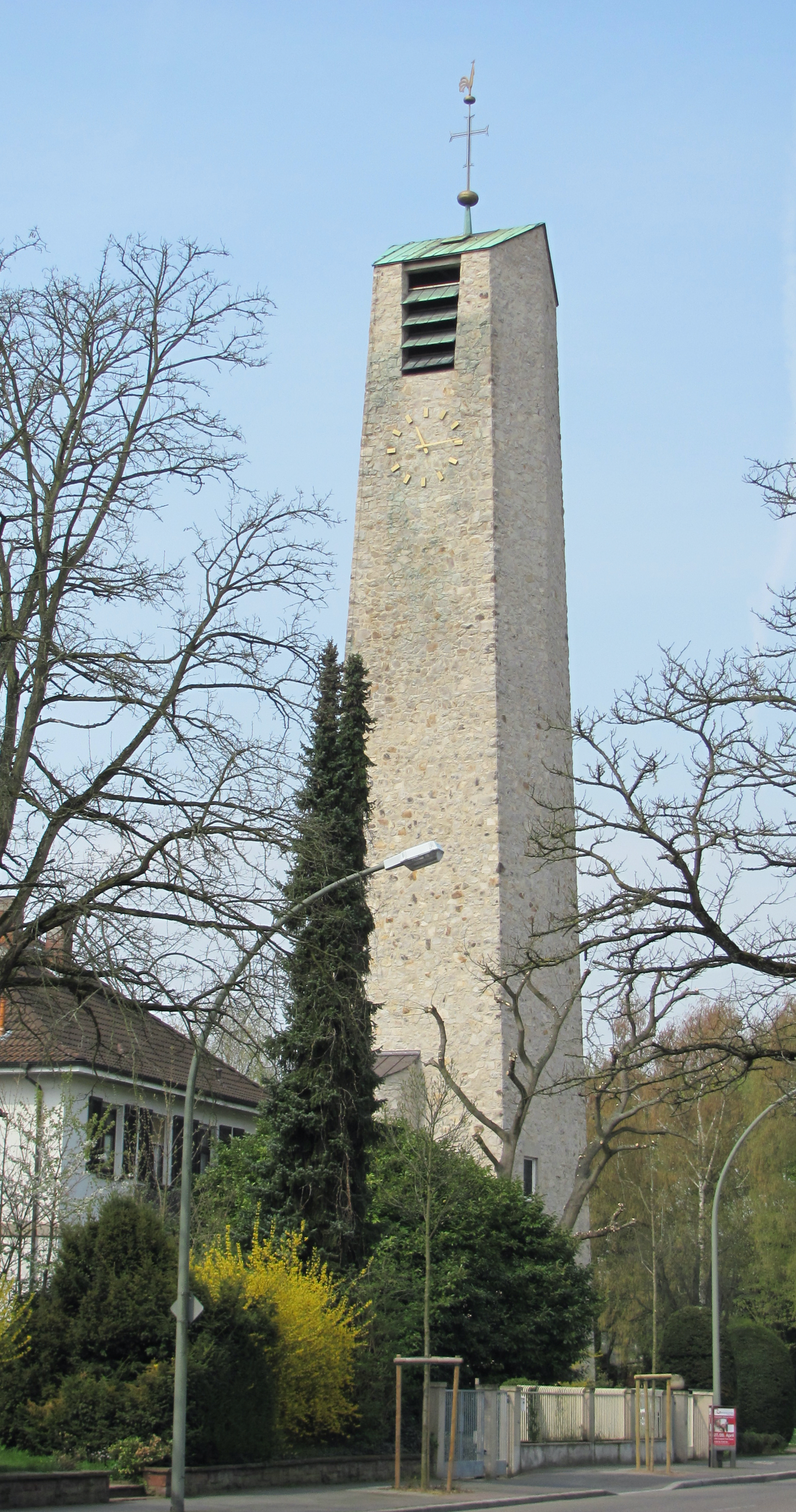 Neue Johanneskirche, Hanau, Churchtower